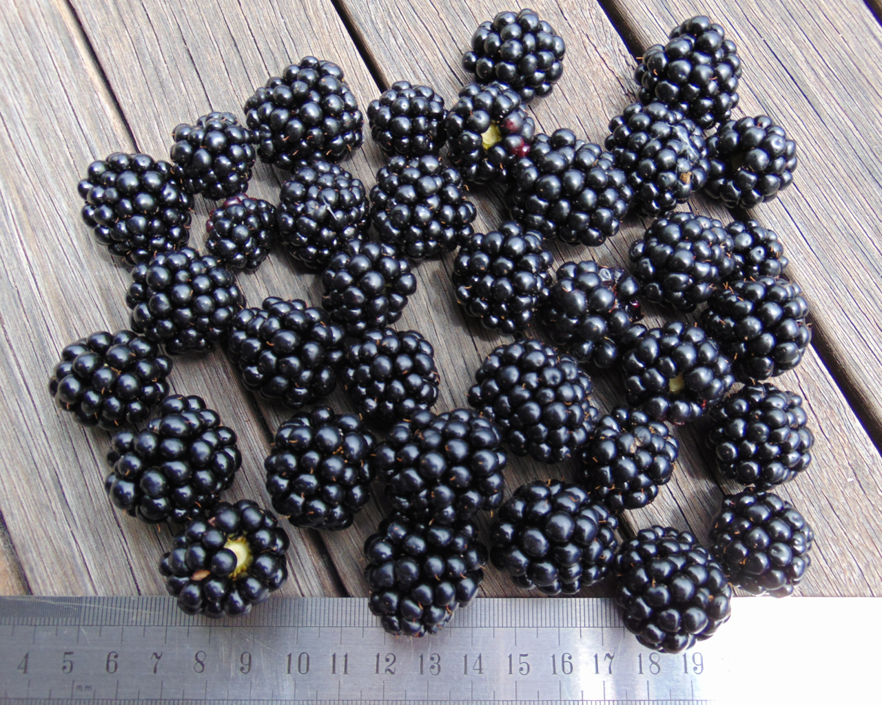 “thornless” blackberry ‘Chester’, Australia